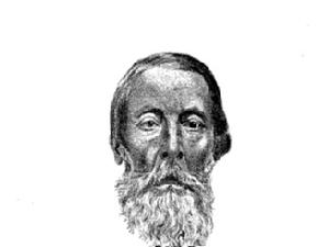 Andrea Crestadoro in 1879 - Museum Curator and inventer. Andrea Crestadoro (1808–1879) was Chief Librarian of Manchester Free Library, 1864-1879